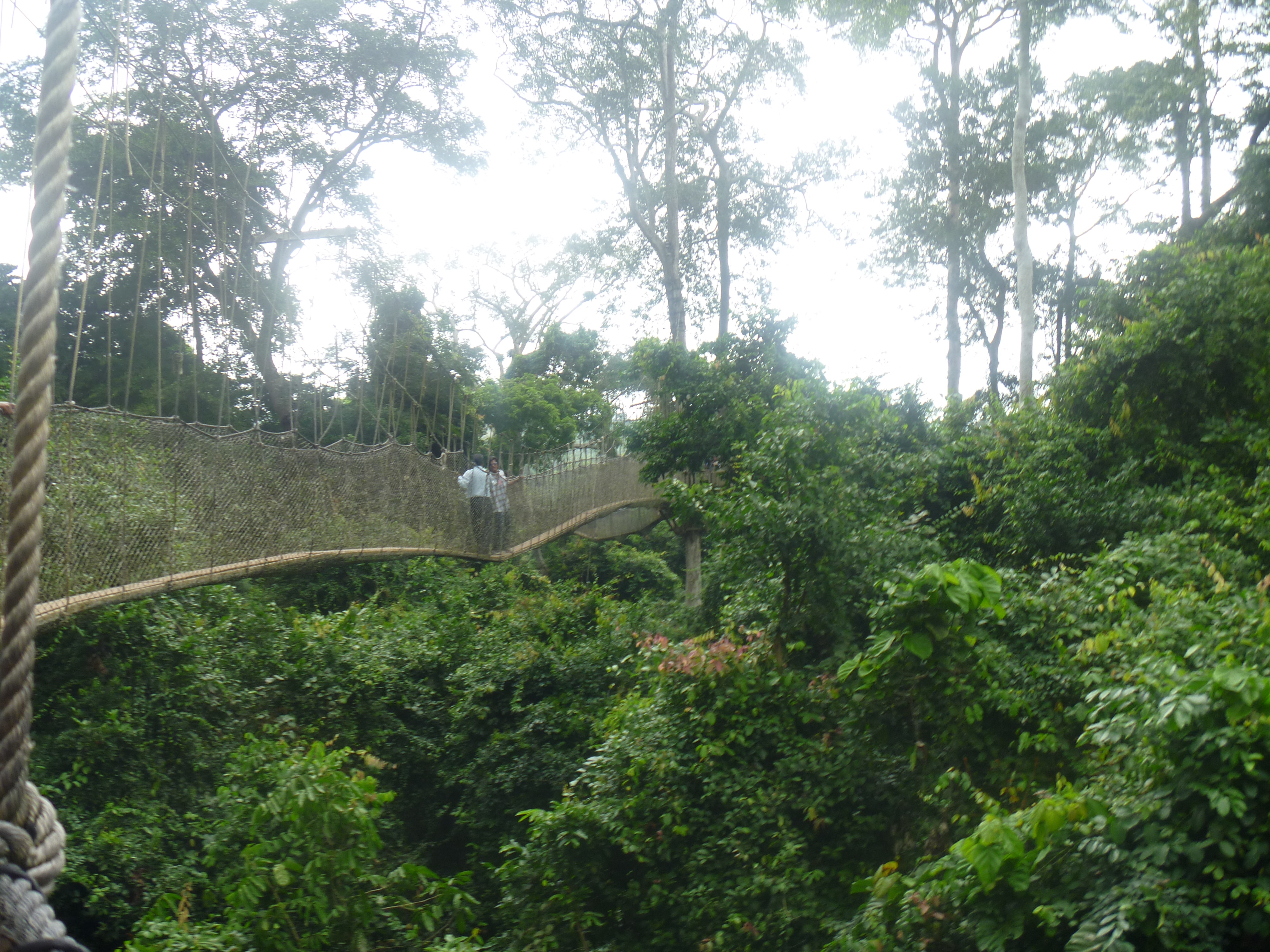 Canopy bridges at Kakum National Park, Ghana.